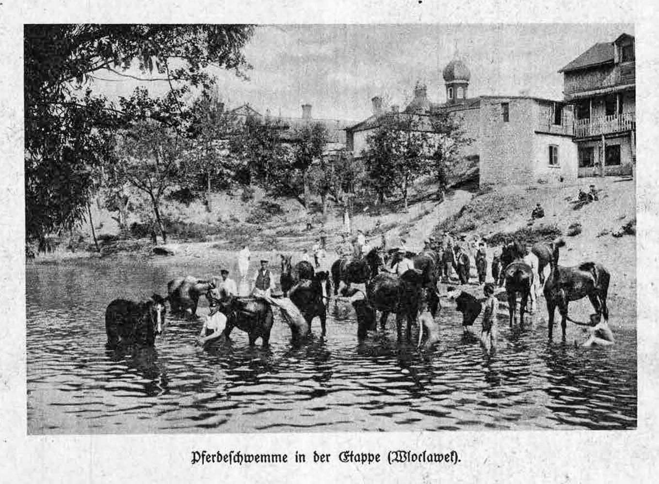 Horse's watering place in Włocławek during I world war.